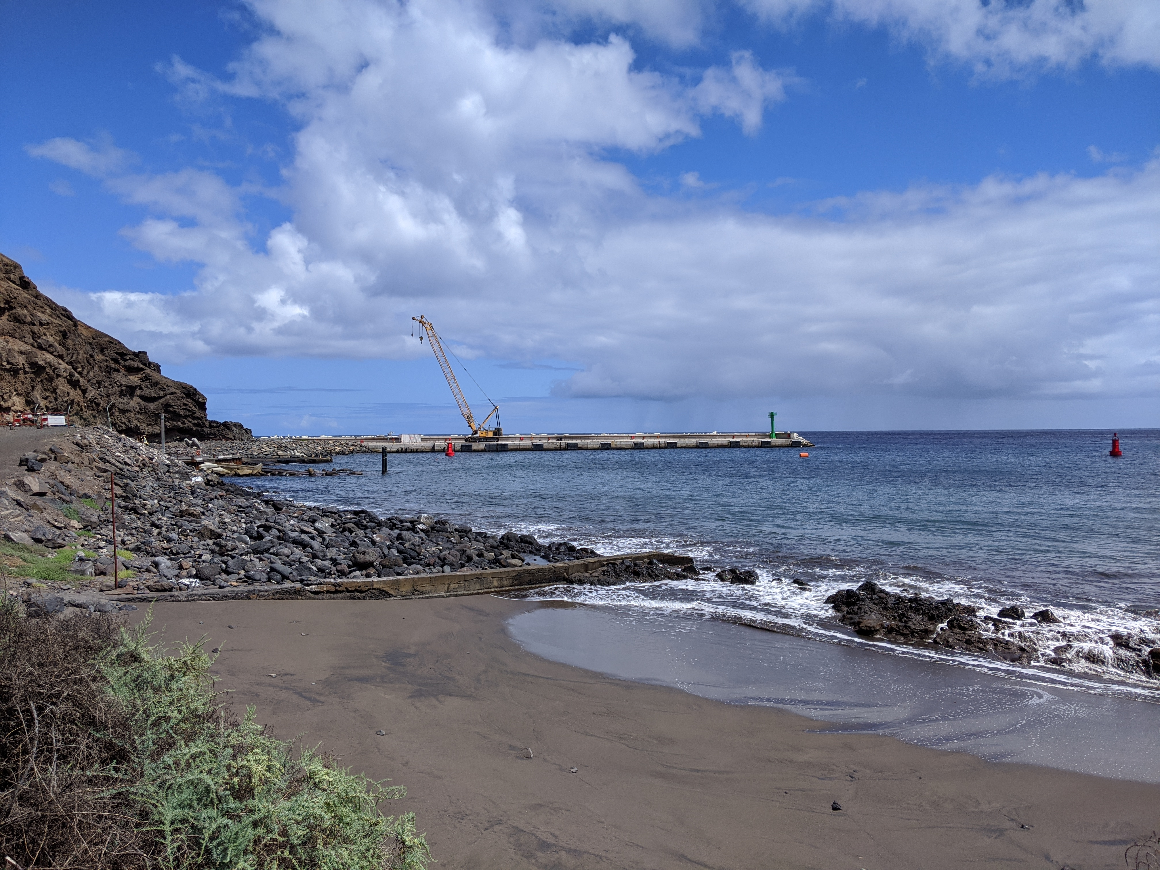 a wharf with a crane juts out into sea. a brown sand beach is in the foreground